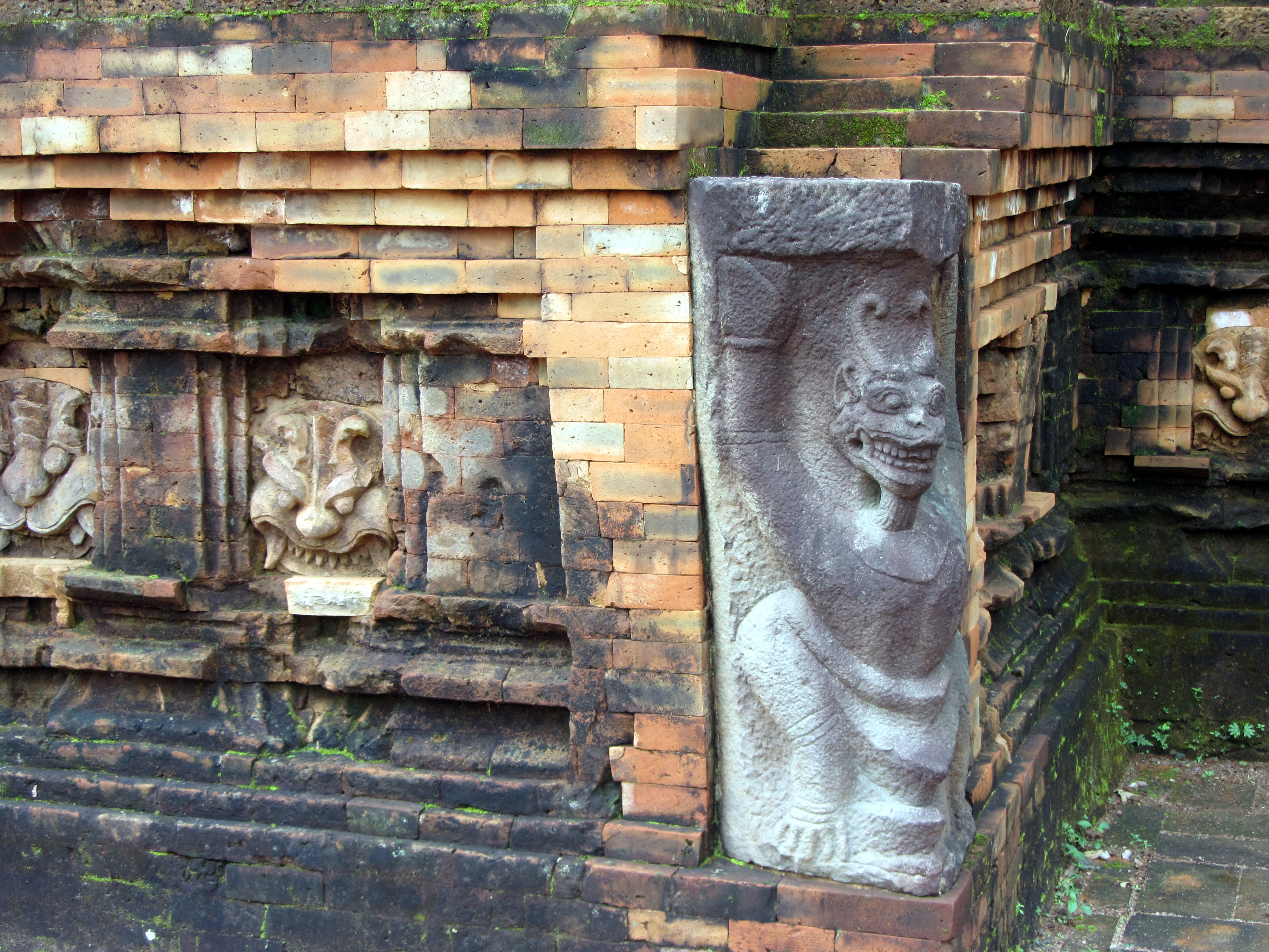 Detail of main temple group G in My Son